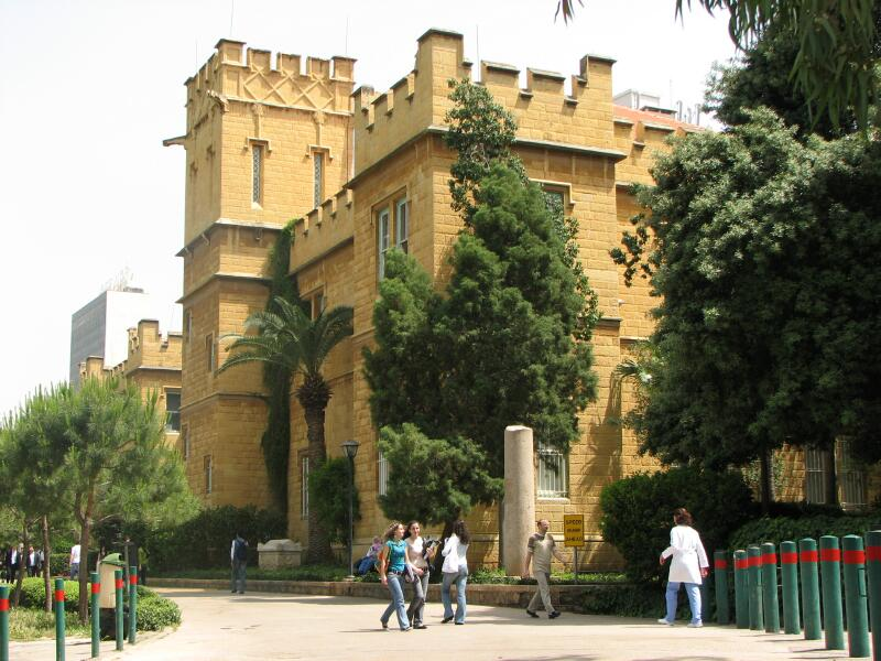 AUB museum Photographed by BlingBling10